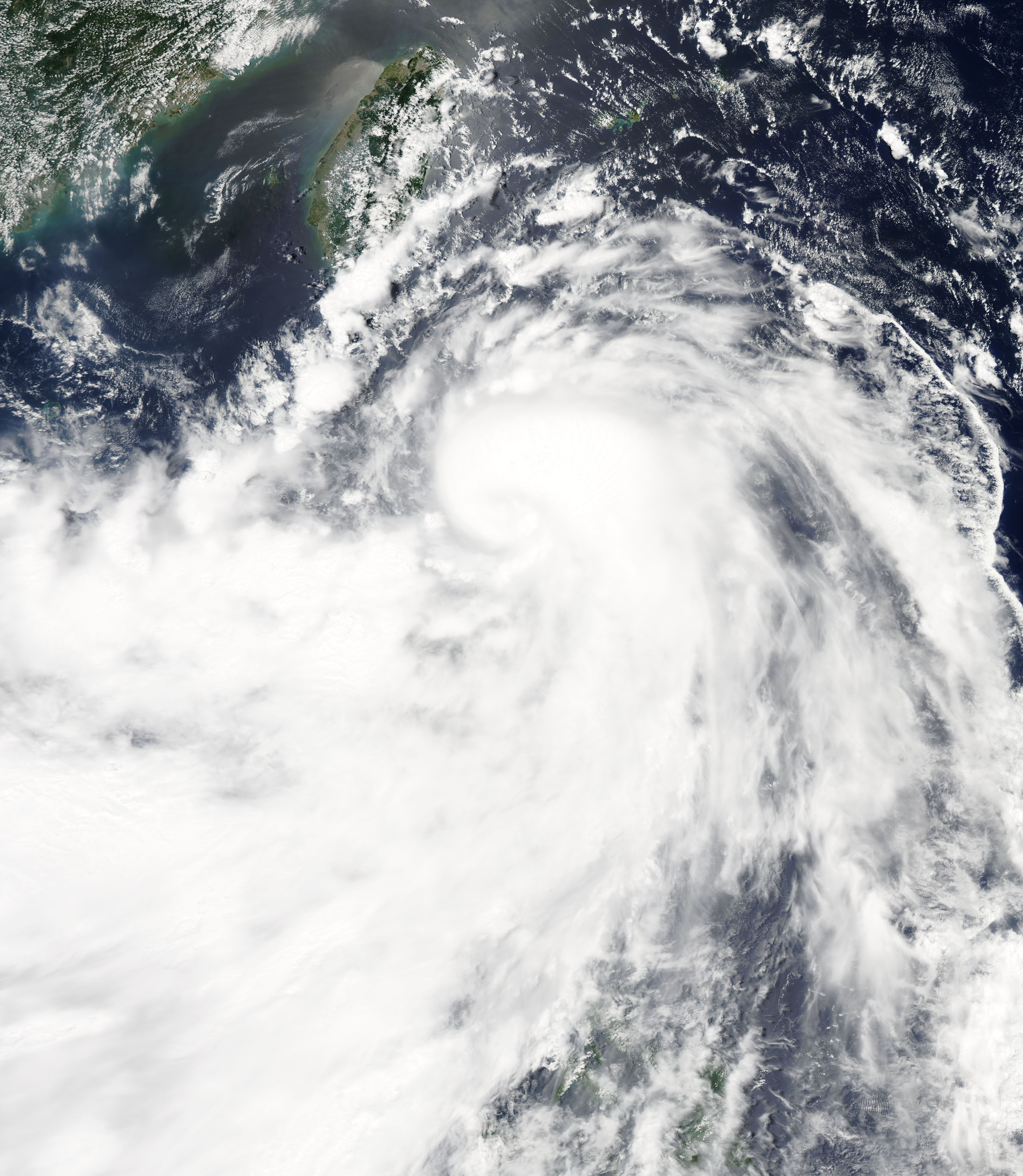 Molave at Philippine sea